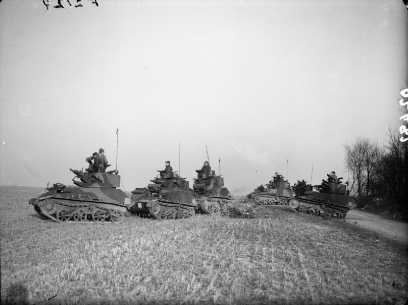 The British Army in France 1940 Light Tank Mk VIs of 4/7th Royal Dragoon Guards during an exercise at Bucquoy, 12 January 1940.